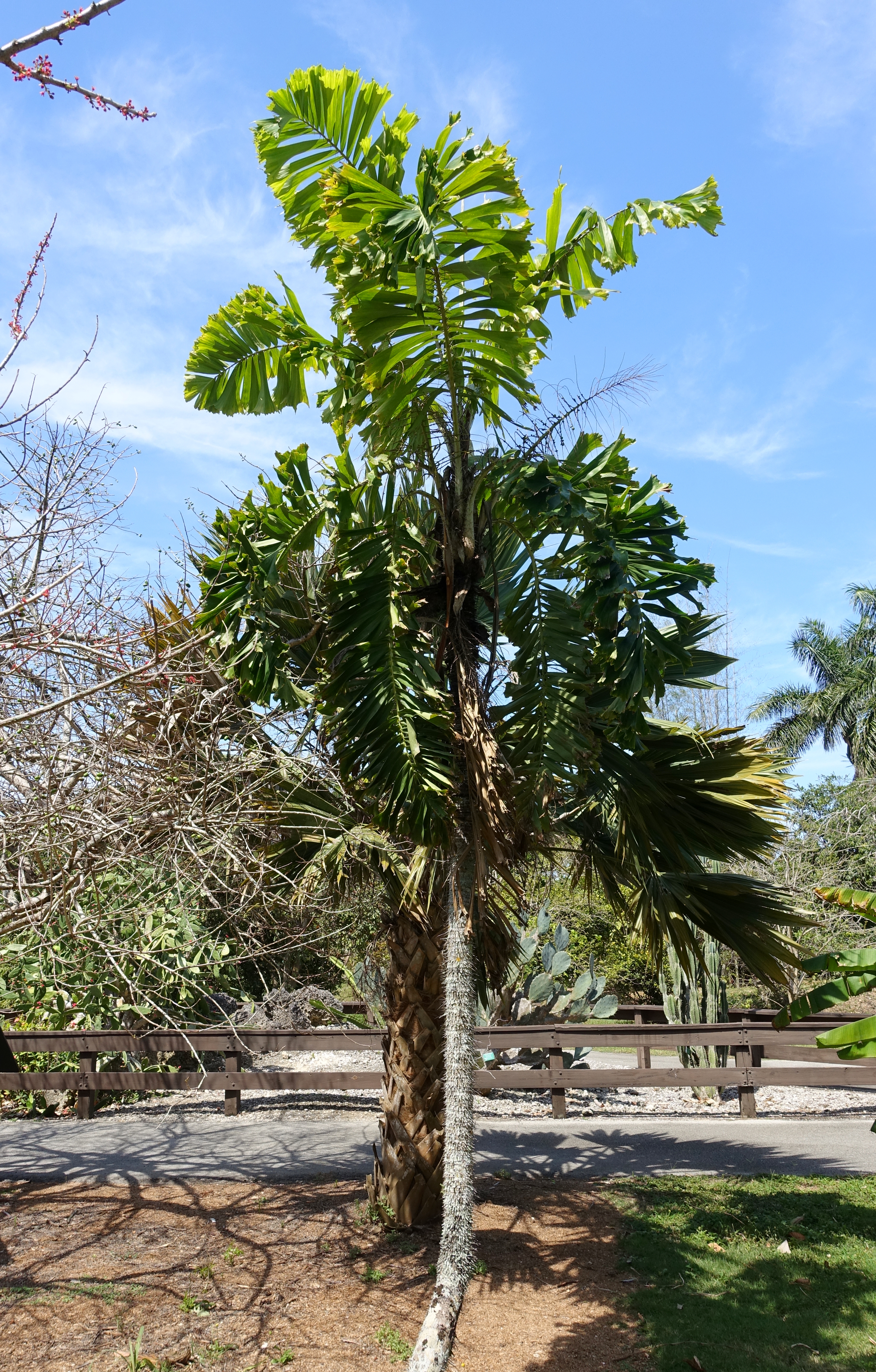 Plant specimen in the Fruit and Spice Park - Homestead, Florida, USA.